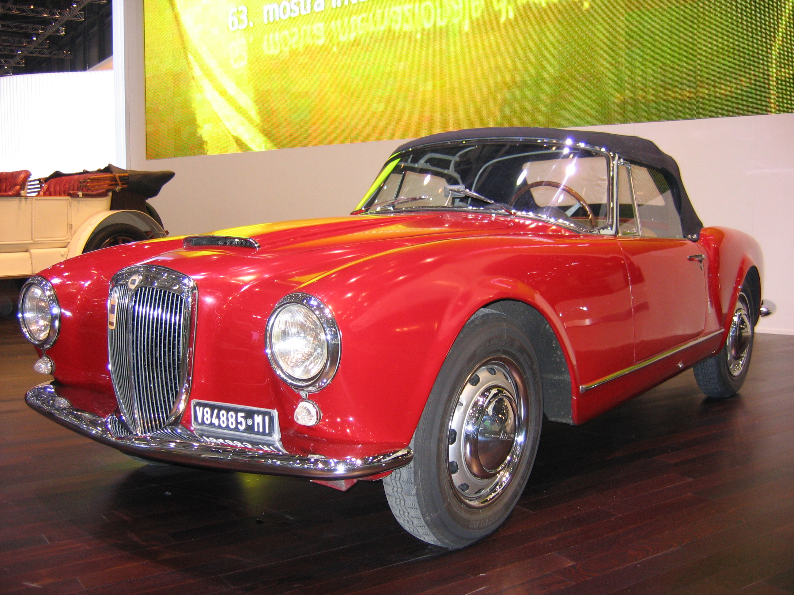 Geneva Motor Show 2006